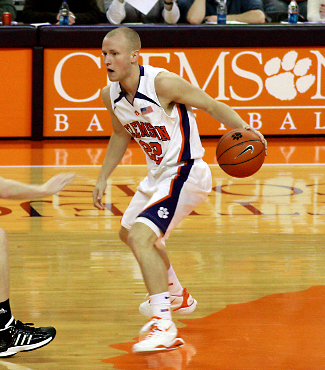 Terrence Oglesby playing for Clemson.